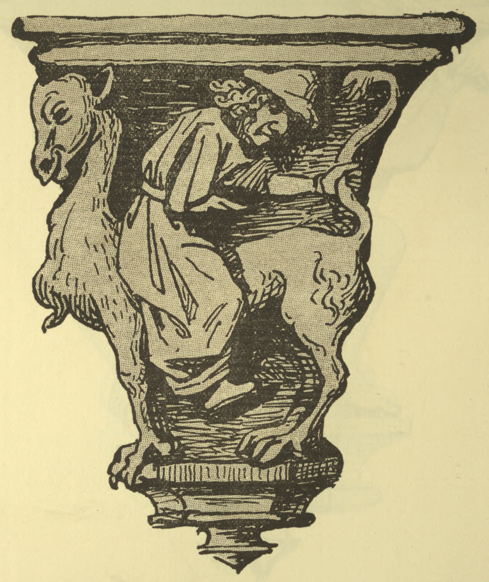 Aarschot (Belgium), Notre-Dame, misericord, late 15th or early 16th century, showing Jew riding backwards on an unidentified animal, probably derived from earlier "Judensau" motifs